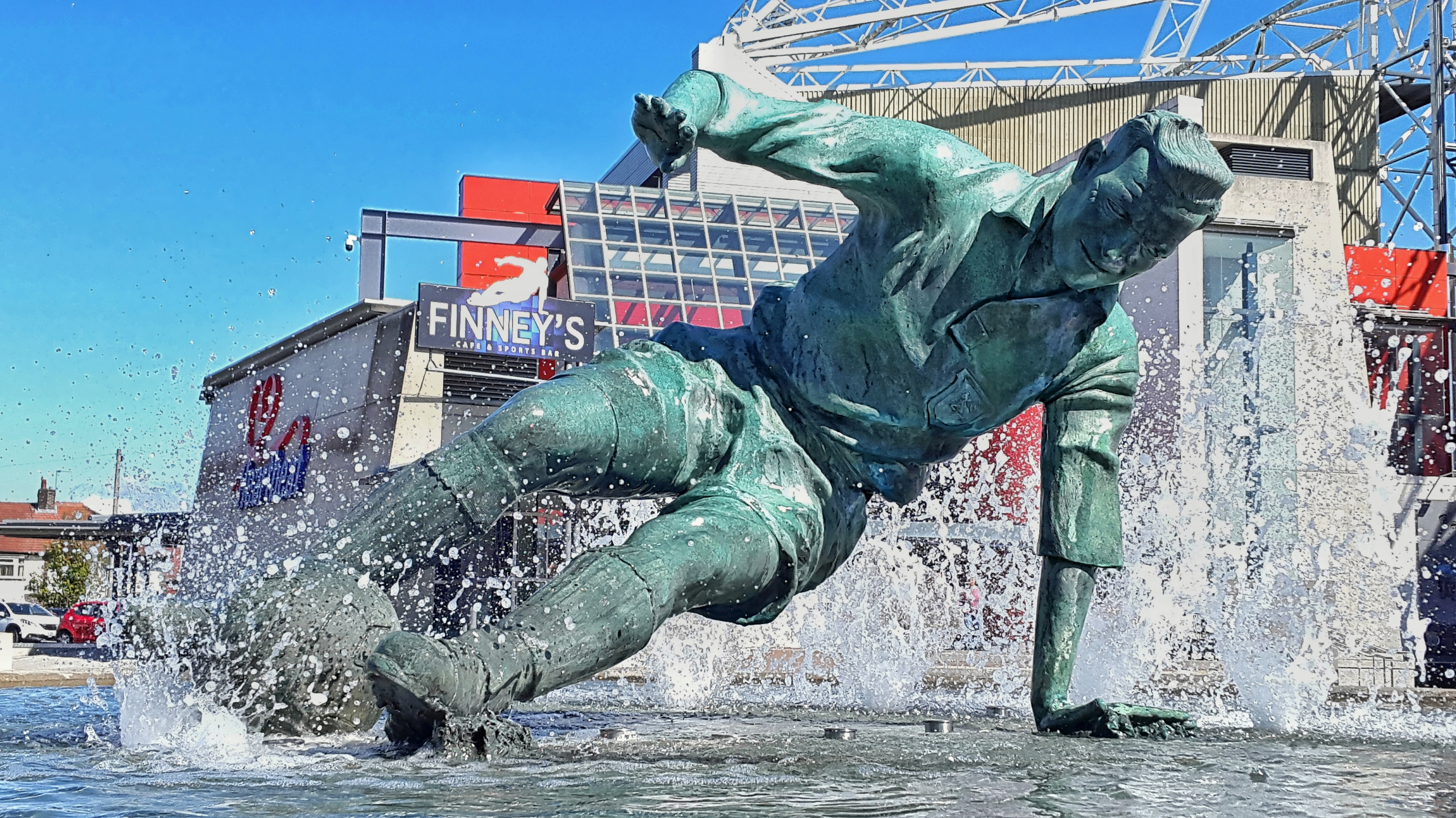 "The Splash", a statue of English footballer Sir Tom Finney located in front of the Deepdale football stadium, Preston.